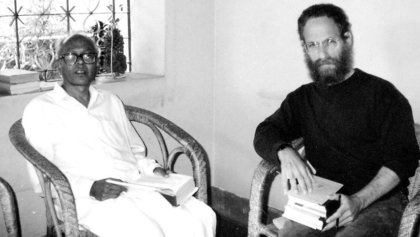 Renowned Kannada Writer Dr T. V. Venkatachala Sastry with Indologist Prof Sheldon Pollock